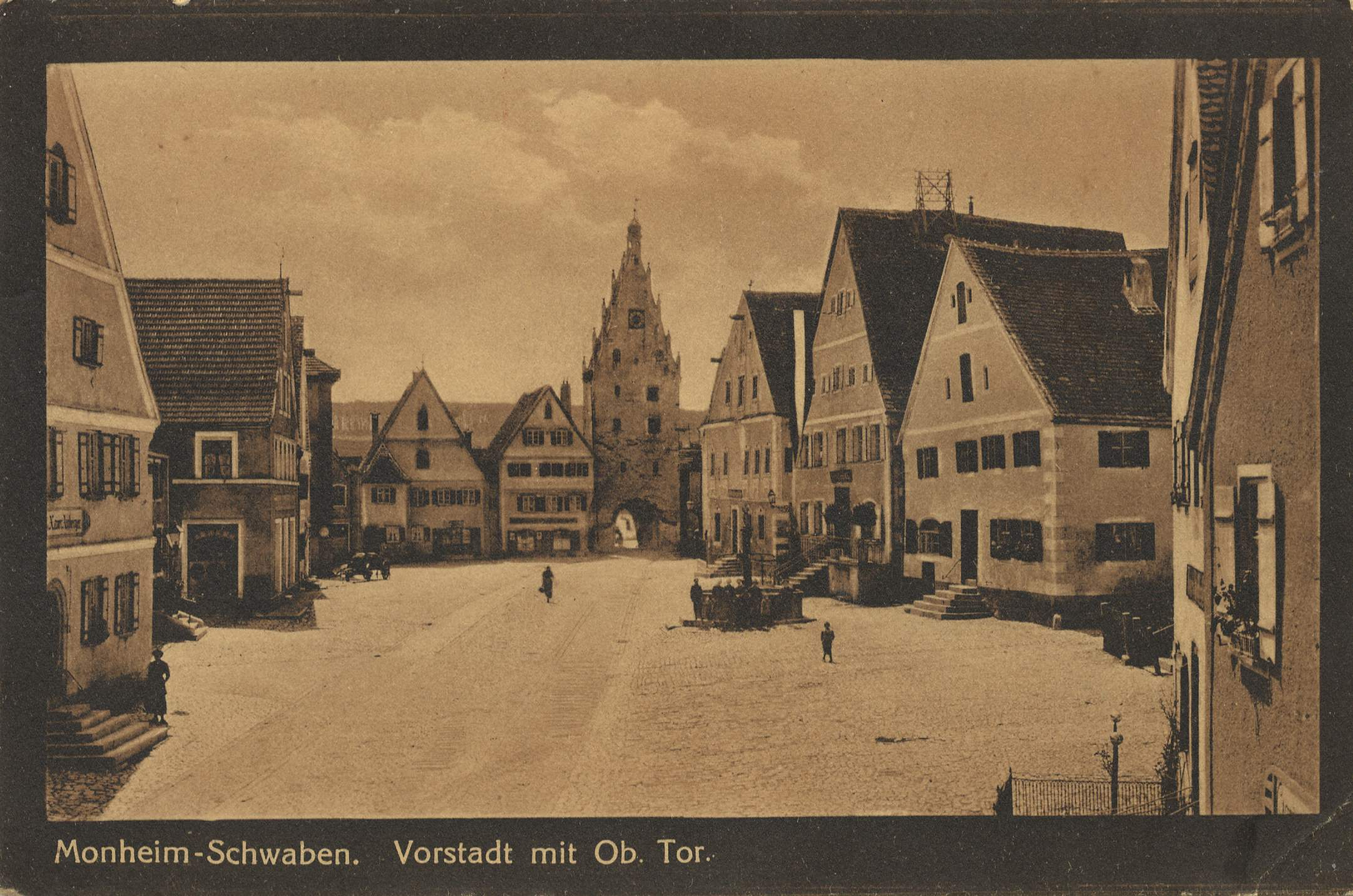 The bavarian town of Monheim